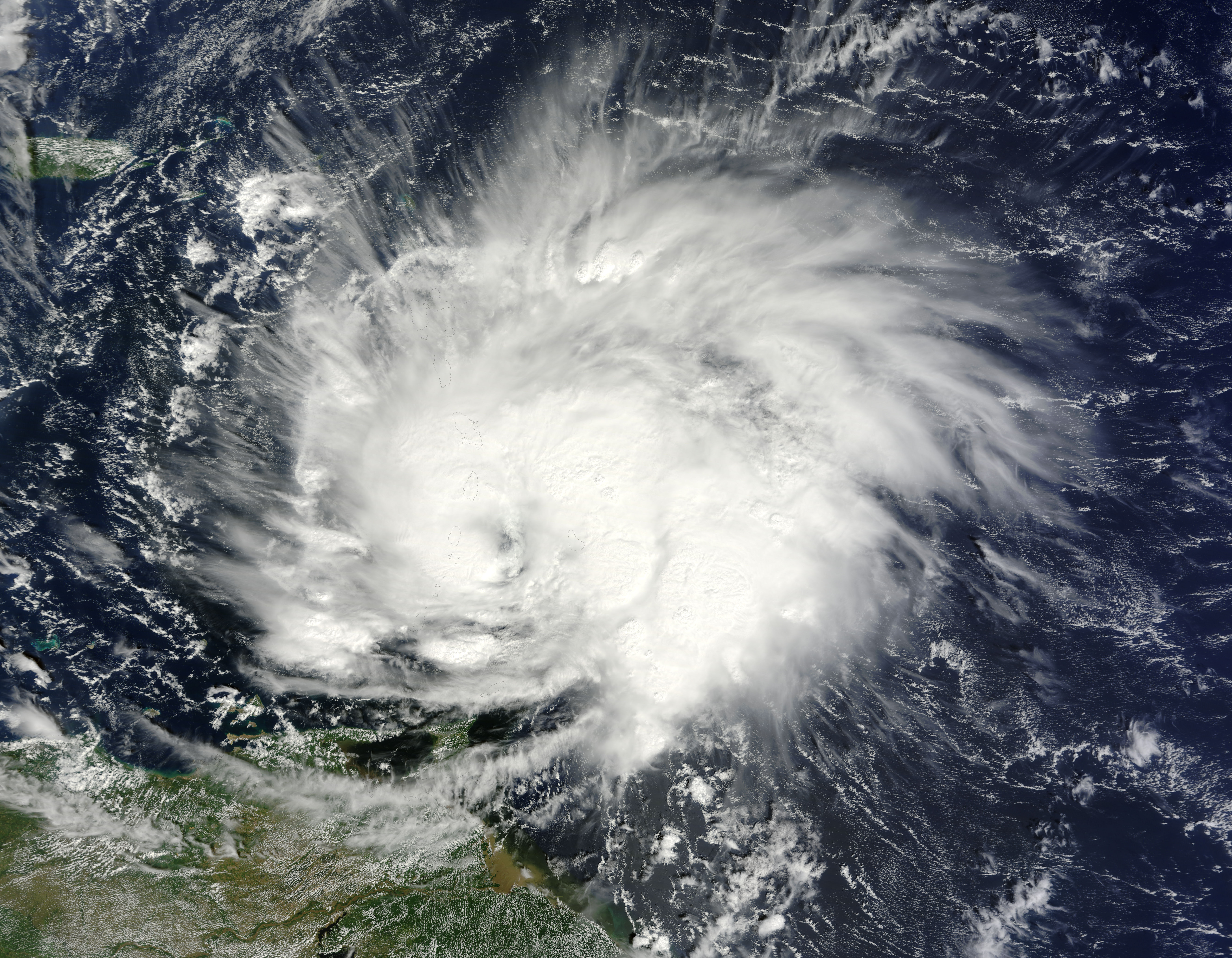 Hurricane Tomas.